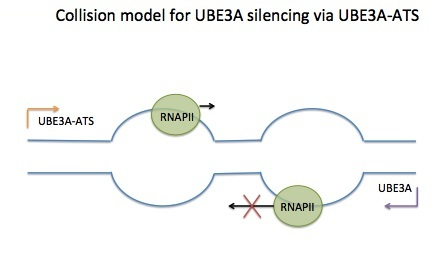 The hypothetical collision model between Ube3a and Ube3a-ATS.